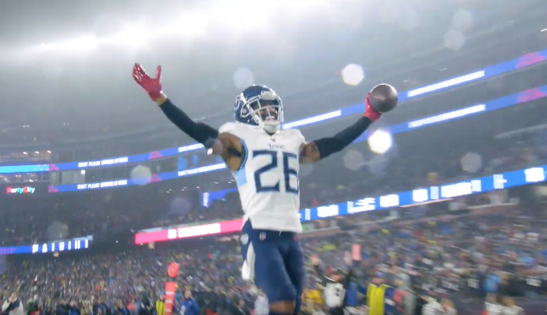 Logan Ryan in 2020. Image from video Logan Ryan's Game-Clinching INT | Touchdown Tuesday, ~ 00:14